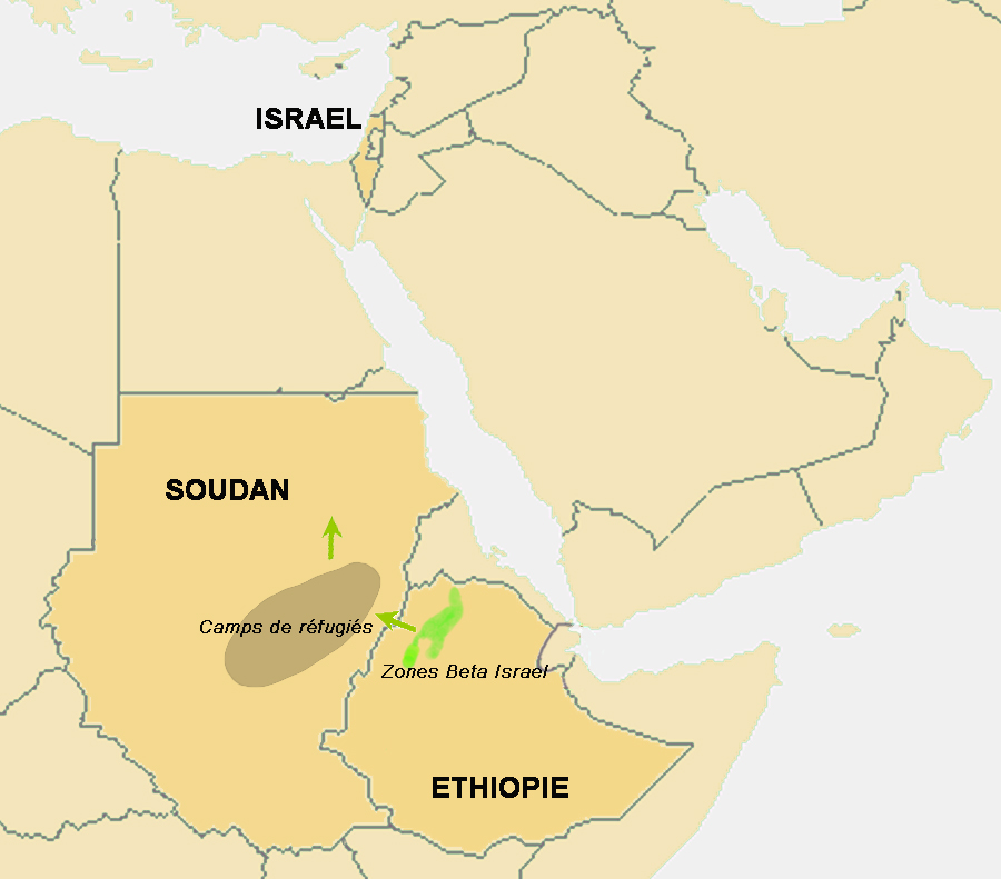 Carte des migrations falashas vers Israël Map of falashas migrations to Israel Carta di migrazione falascia verso Israele Par Christophe cagé 07:00, 15 October 2006 (UTC)